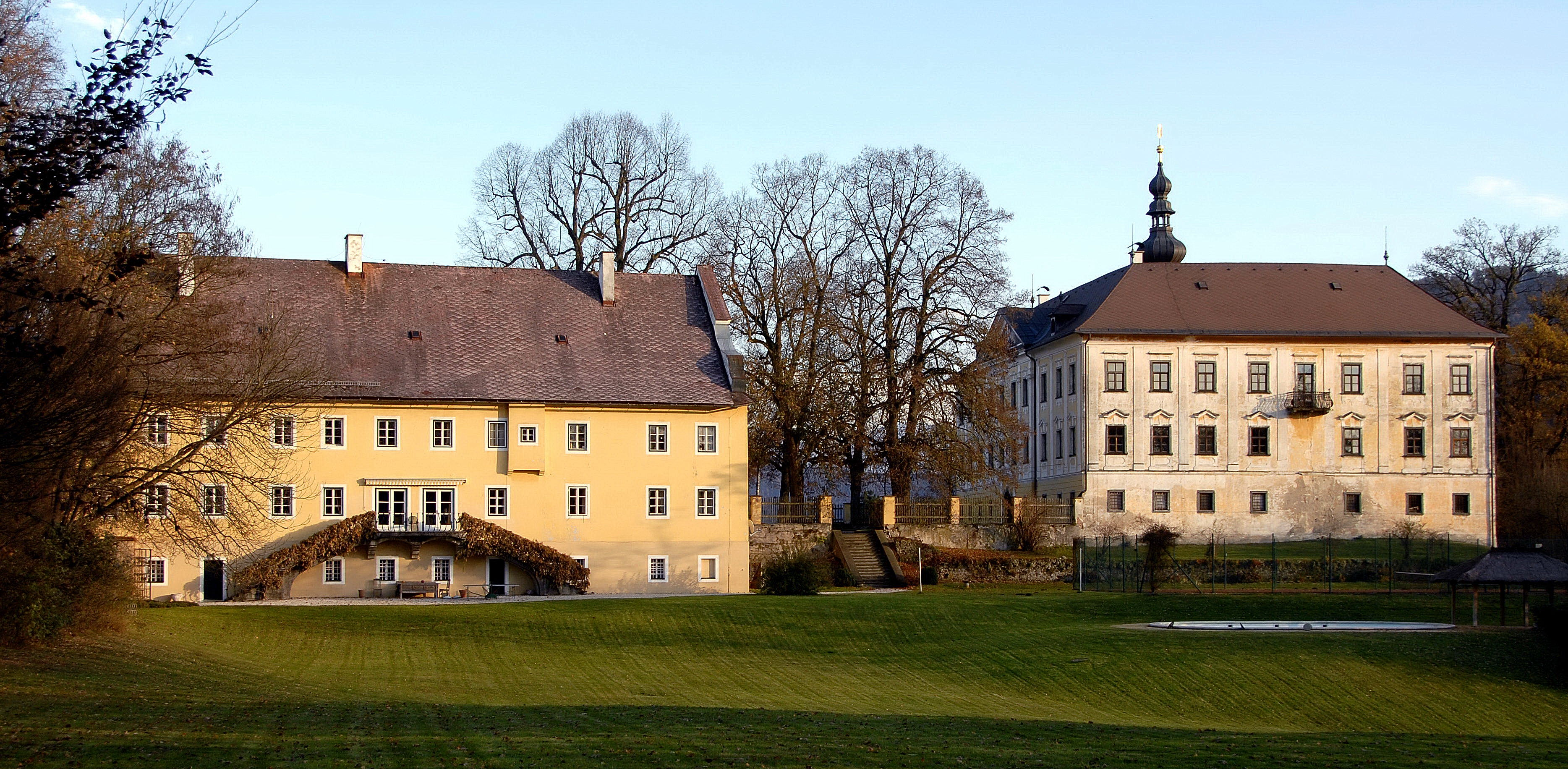 Castle Grafenstein of the noble family Orsini-Rosenberg in Grafenstein, municipality Grafenstein, district Klagenfurt-Land, Carinthia, Austria